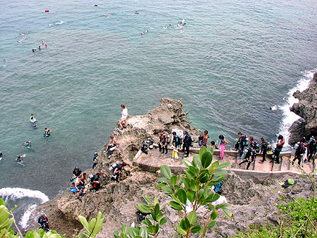 Cape Maeda